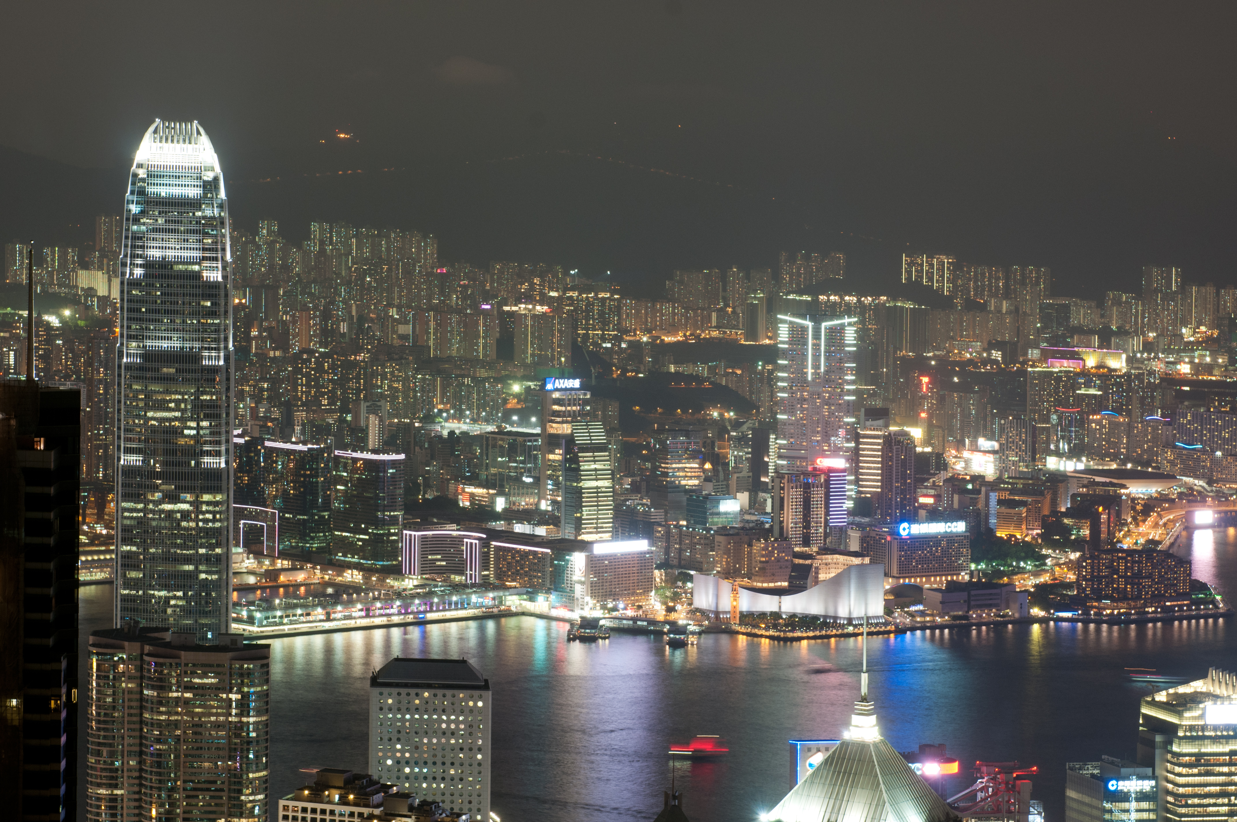 Hong Kong; View from Victoria Peak to Victoria Harbour and Kowloon